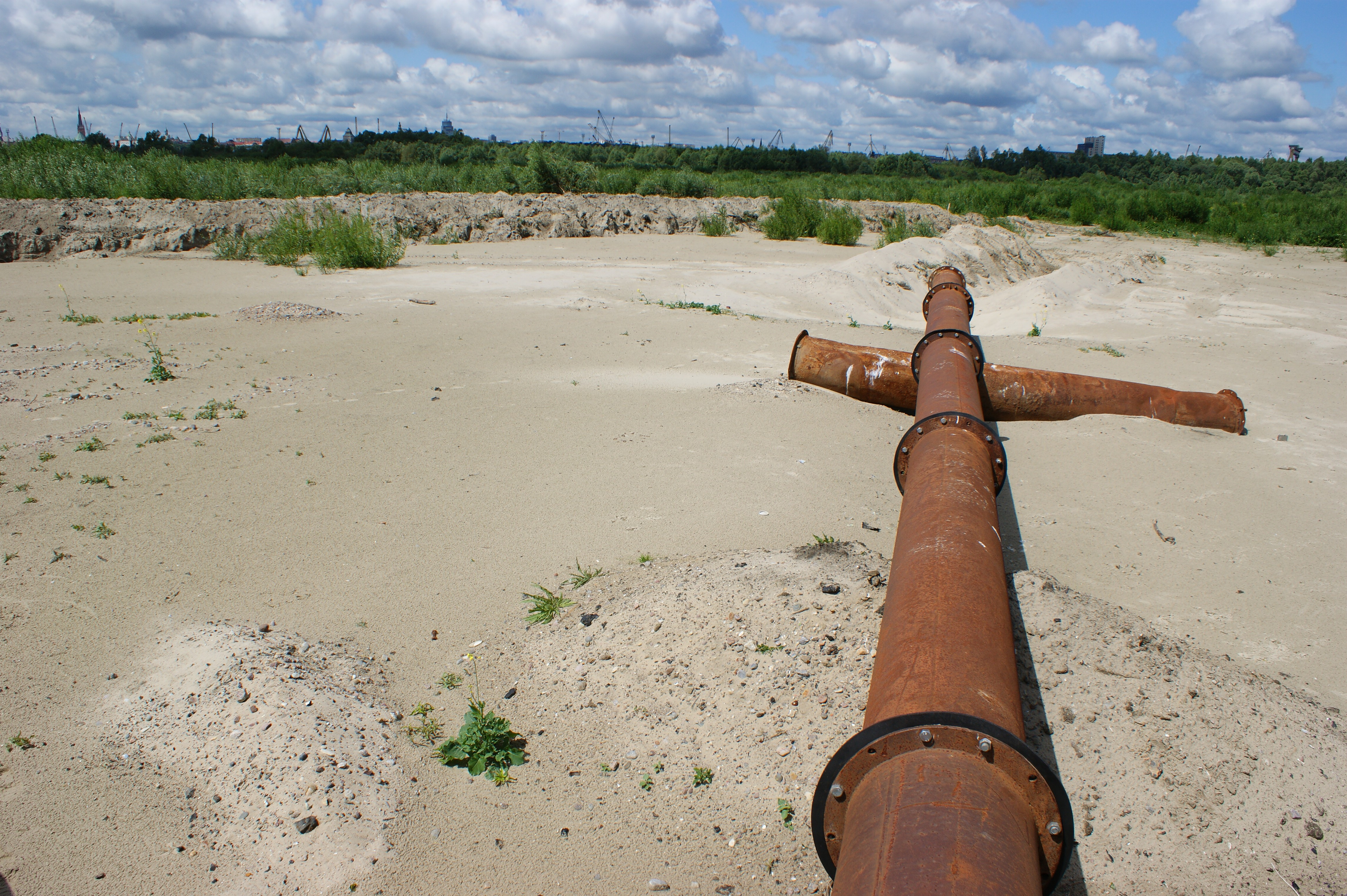 Dredging spoil on Ostrów Grabowski Island in Szczecin (NW Poland)